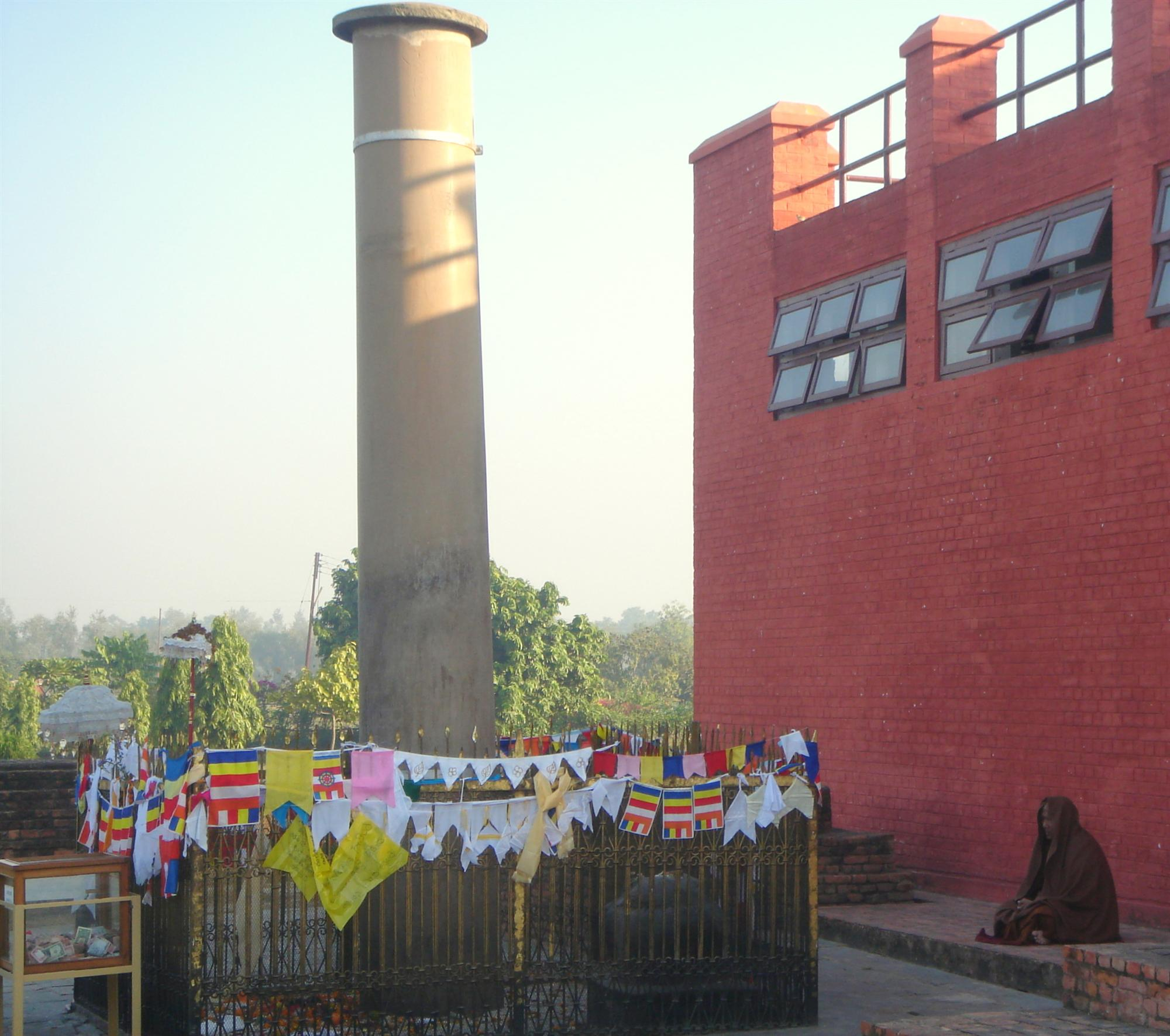 The Asokan pillar at Lumbini, where Gautama Buddha was born (current Nepal).